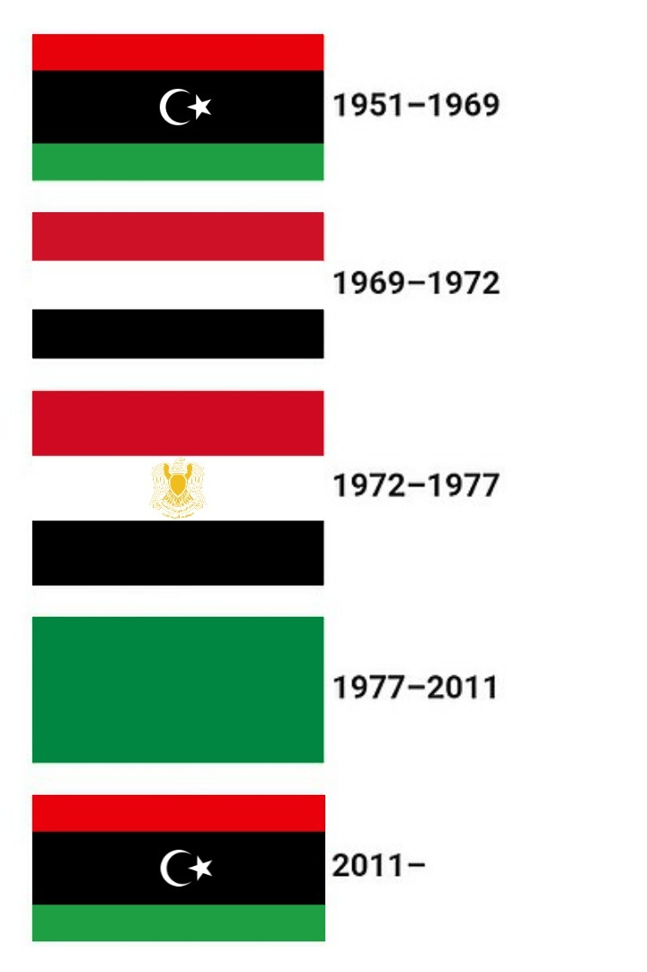 History of the flag of Libya